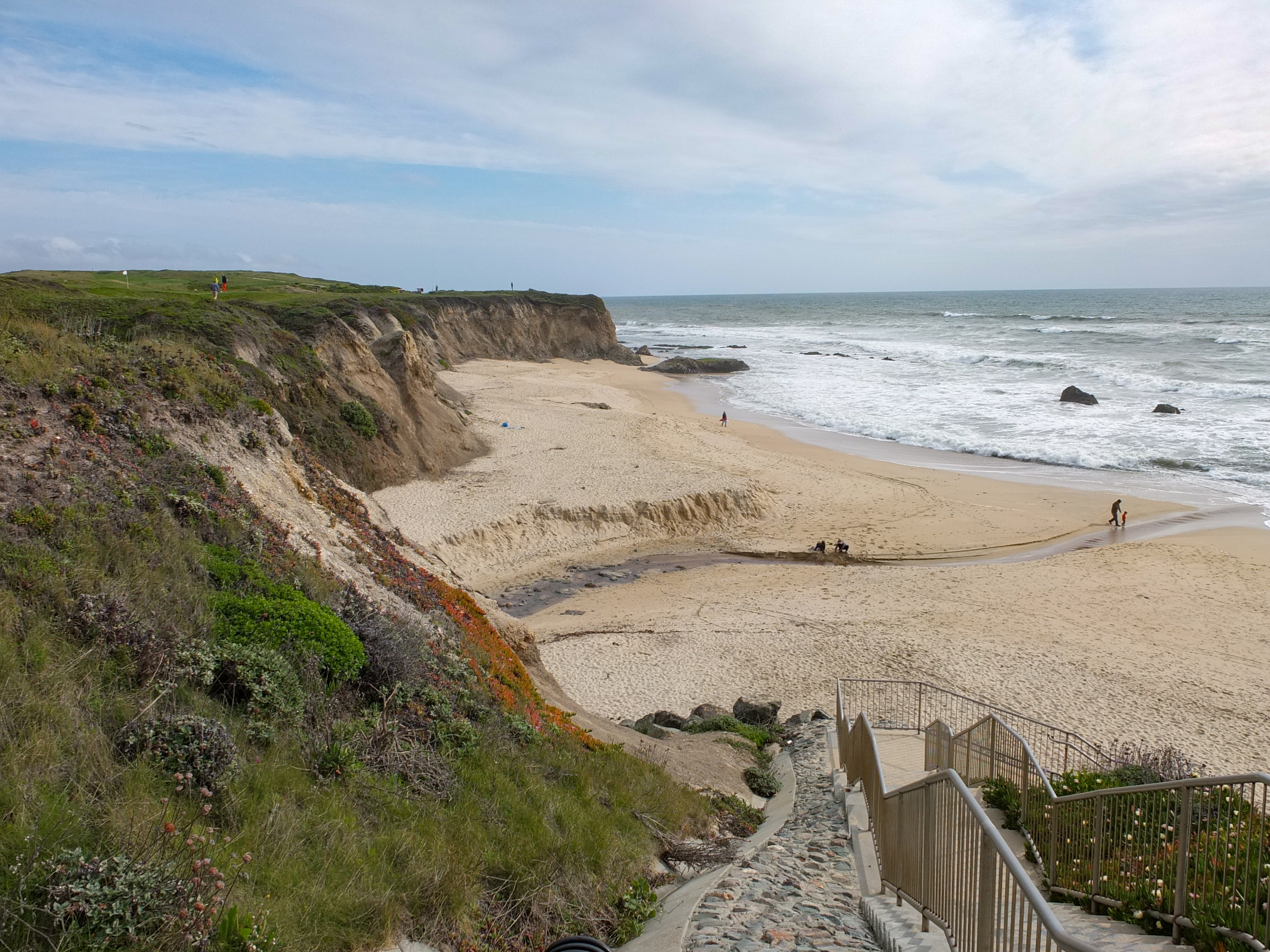 Beach and cliff at Ritz-Carlton, Half Moon Bay Half Moon Bay